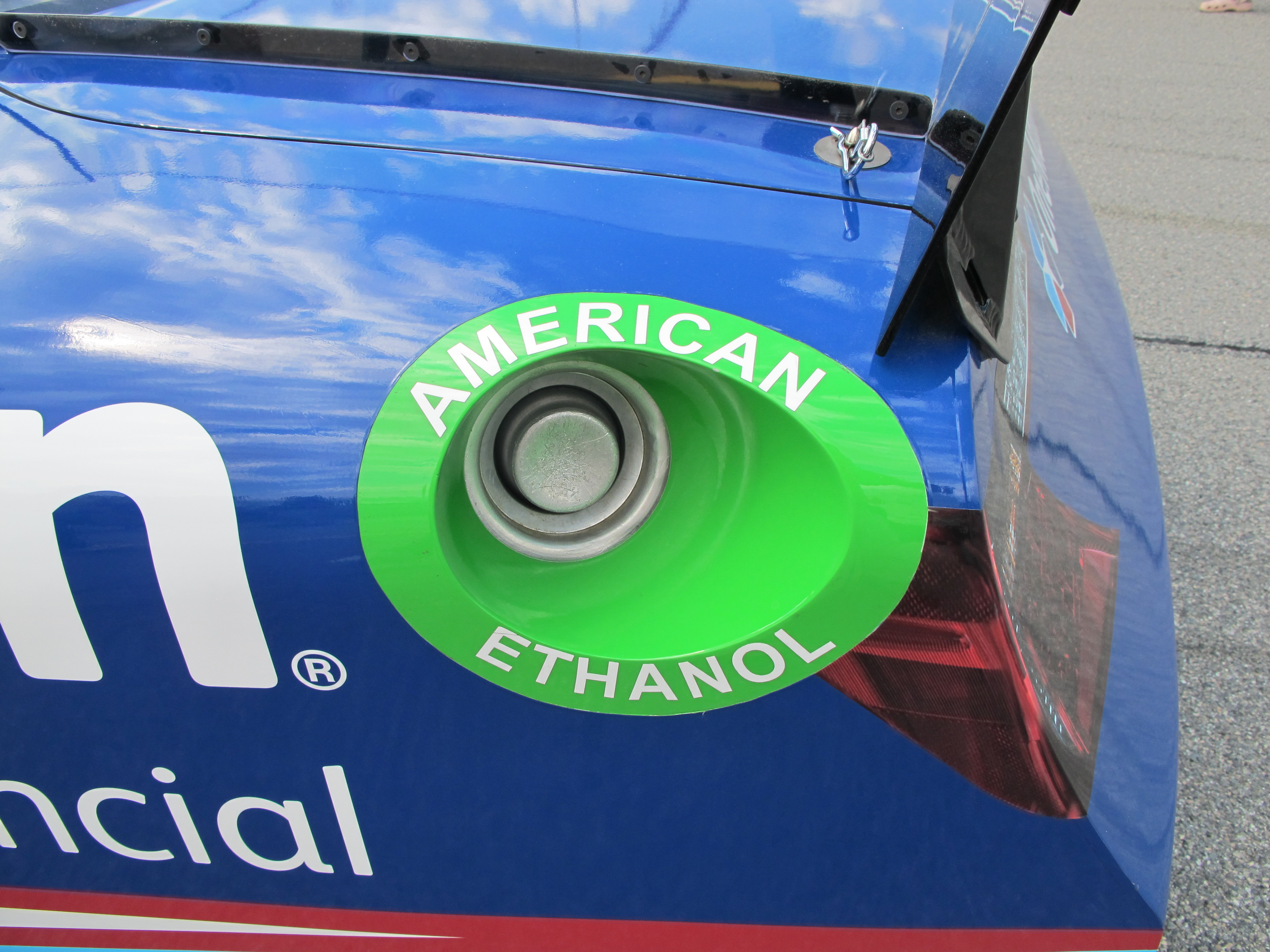 American Ethanol Fuel Tank